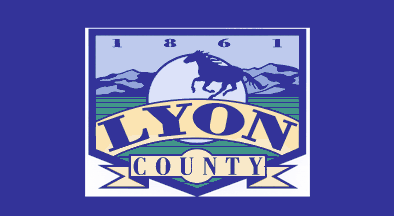 Flag of Lyon County, Nevada